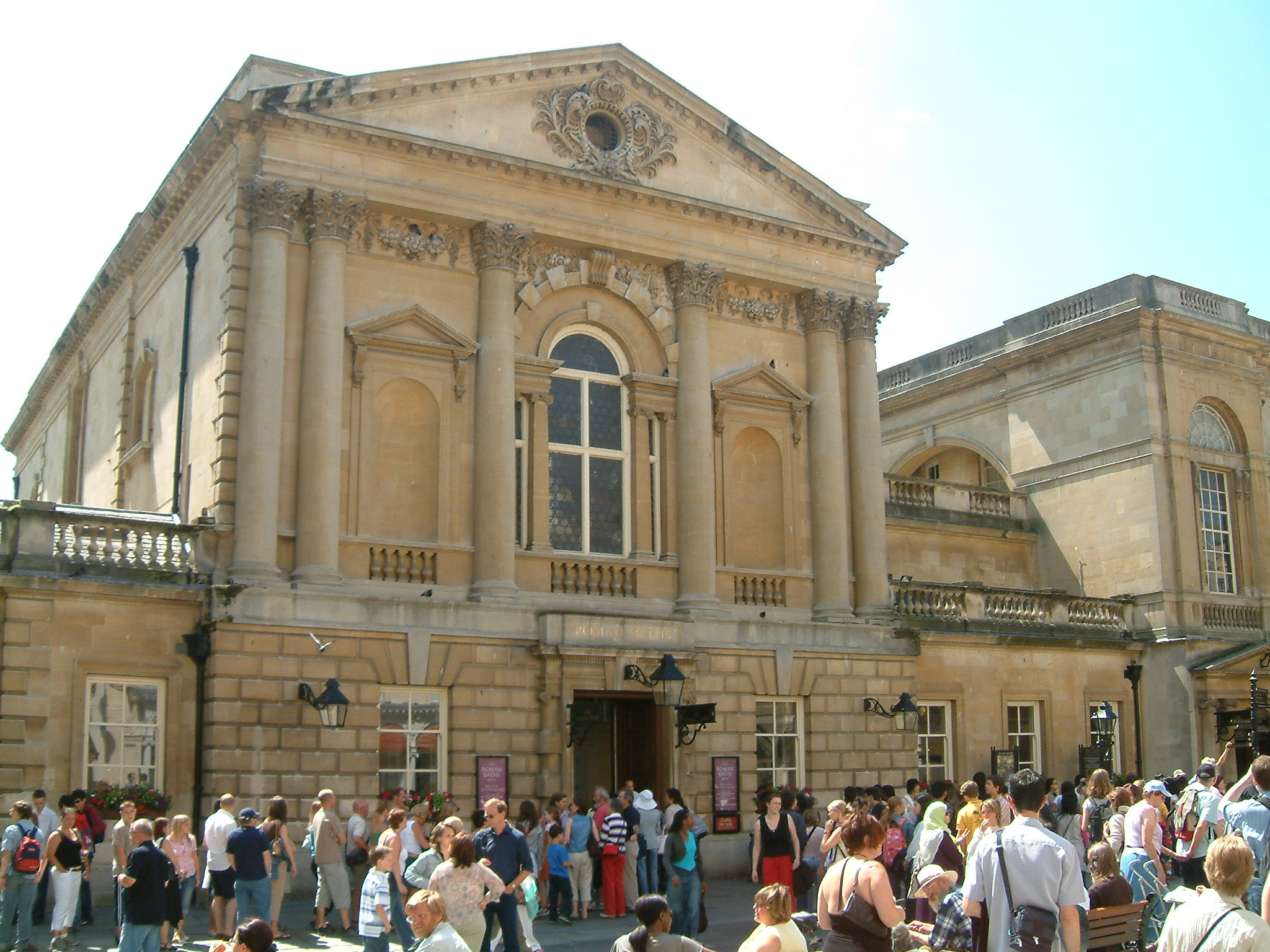 The entrance to the Roman Baths, Bath, England, United-Kingdom